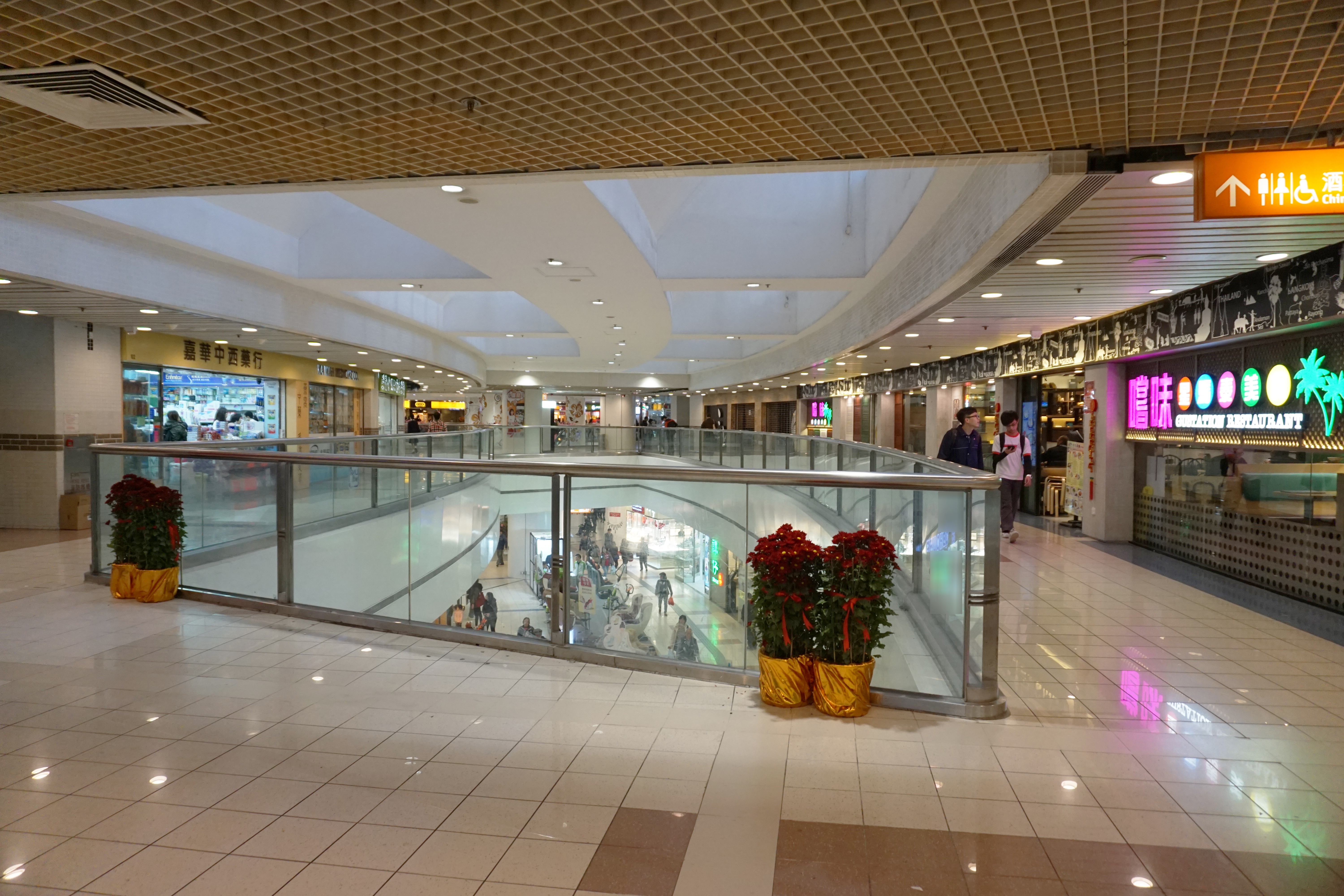 Chung On Shopping Centre in Heng On, Hong Kong.